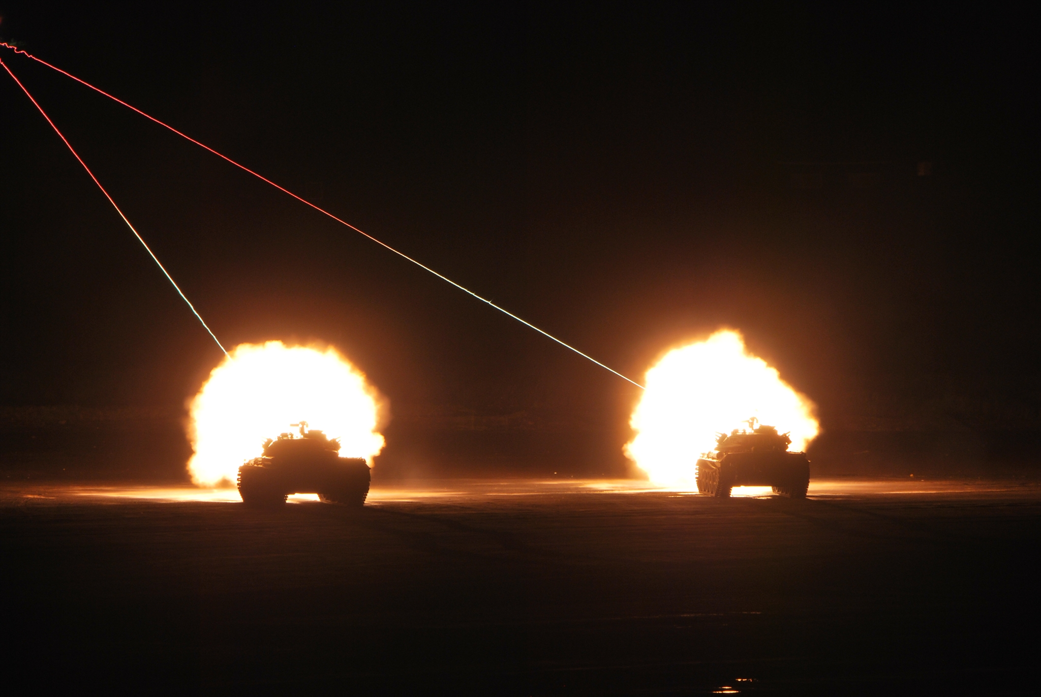 Title 7421_07_011.JPG Album 富士総合火力演習・そうかえん 夜間演習（７４式戦車）